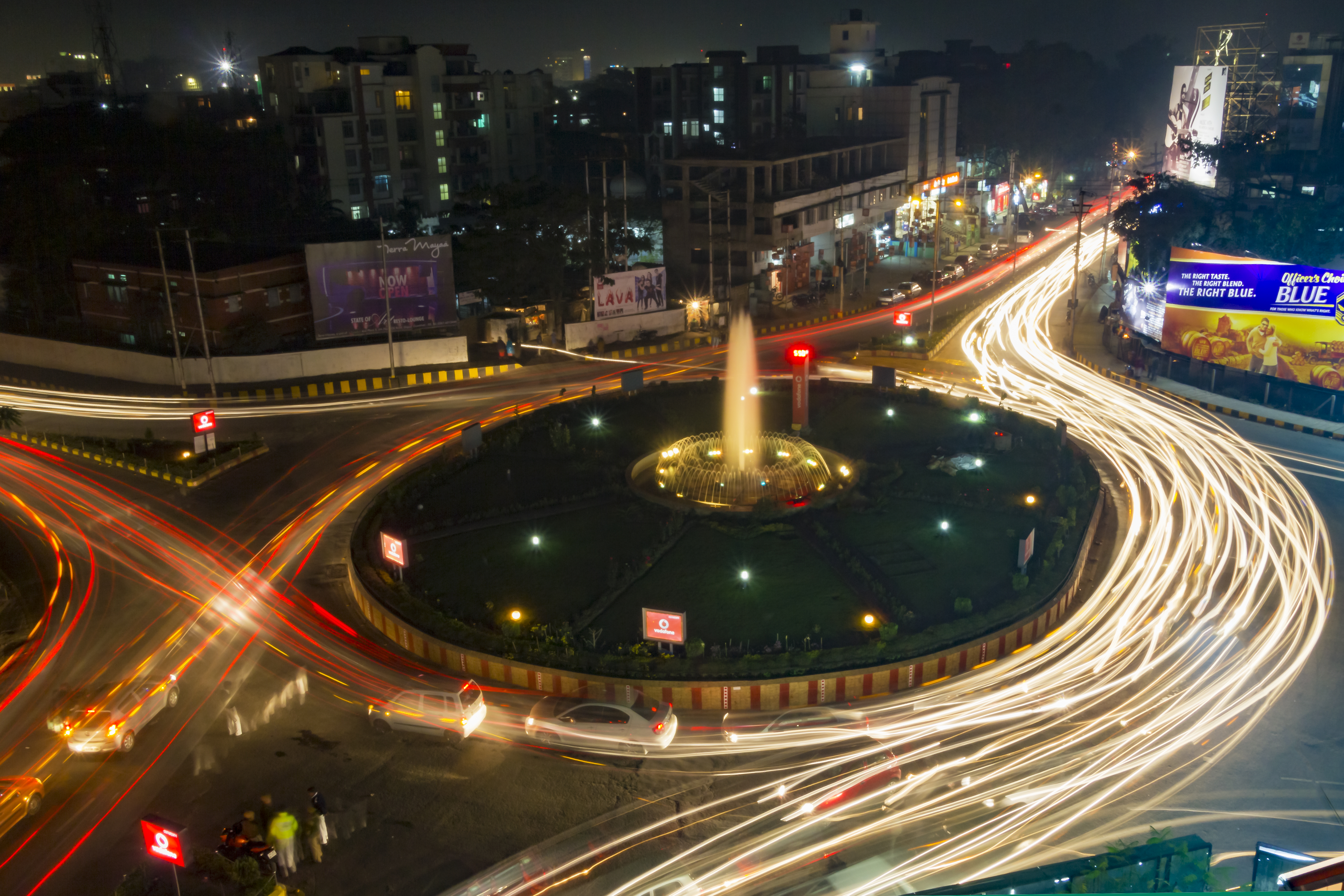 Guwahati is the largest city in the Indian state of Assam and also the largest metropolis in northeastern India. A major riverine port city along with hills surrounded by. Guwahati Club is one of the prominent locations of Guwahati. Sahityarathi Lakshminath Bezbaruah Chowk is shown in the image. অসমীয়া: অসমৰ গুৱাহাটী মহানগৰীৰ গুৱাহাটী ক্লাব অঞ্চলৰ সাহিত্যৰথী লক্ষ্মীনাথ বেজবৰুৱা চ'ক নৈশ আলোকোজ্জ্বল দৃশ্য।